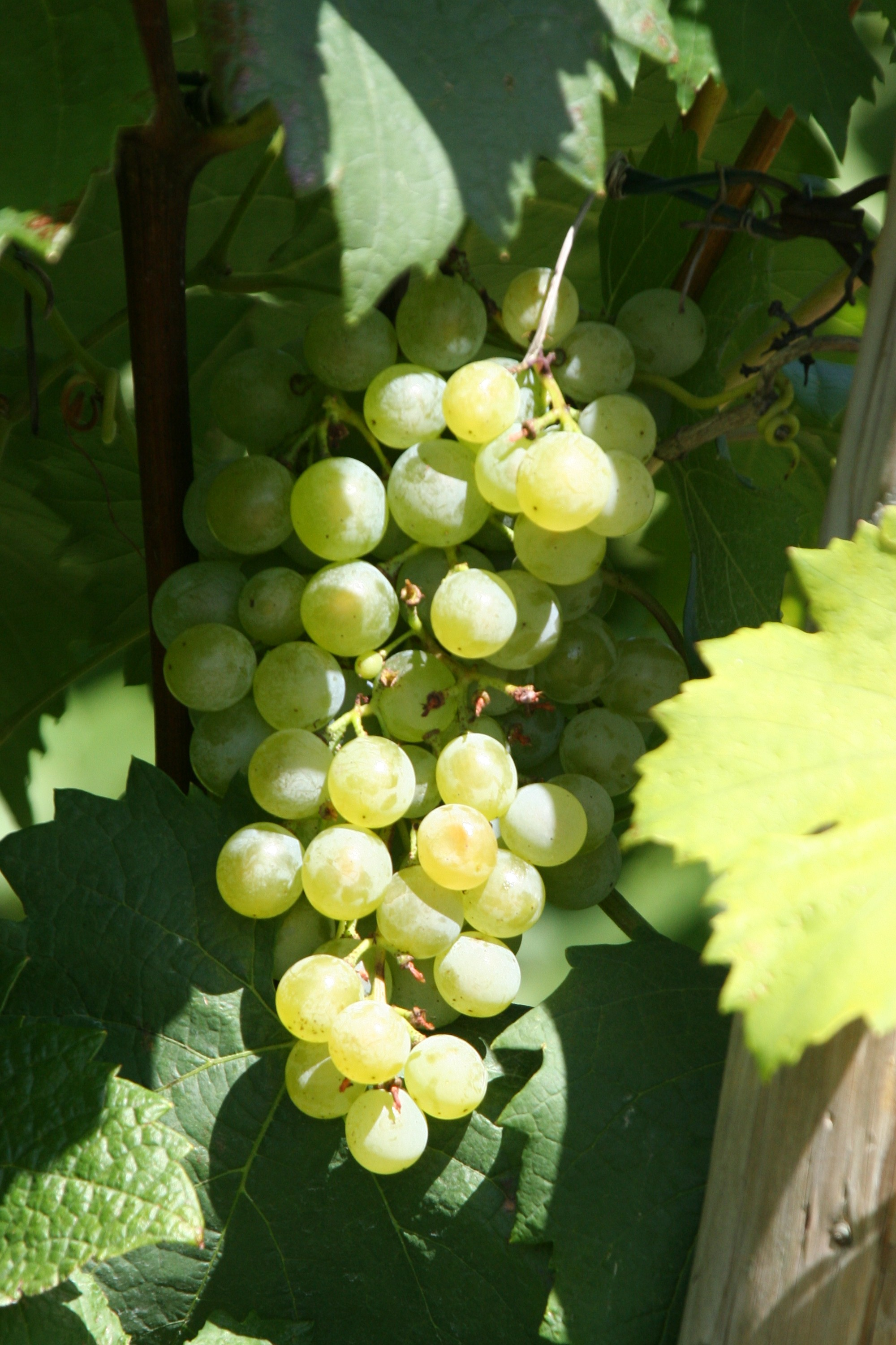 Grapes and leaves of the grape variety Grüner Veltliner, photographed at the viticulture trail on the Schemelsberg hill in Weinsberg